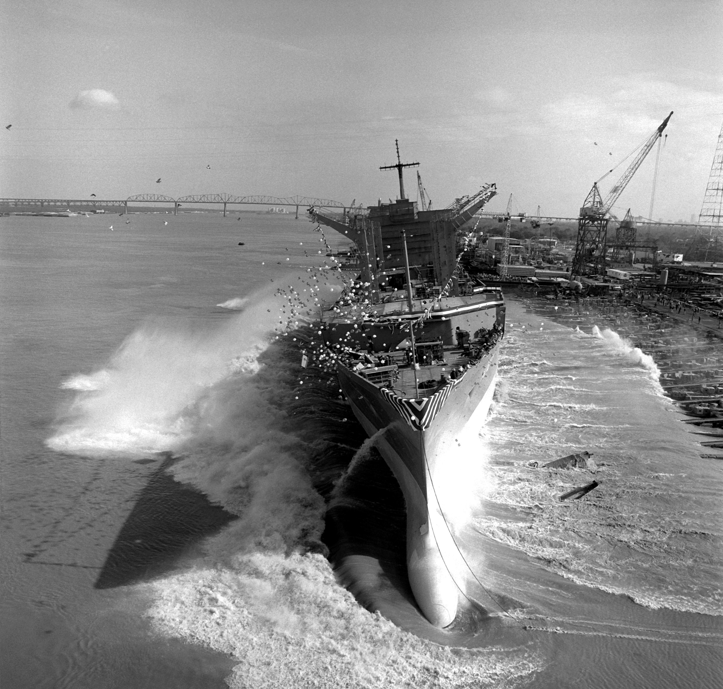 The U.S. Navy fleet oiler USS Platte (A0-186) becoming waterborne for the first time during the launching ceremony at Avondale Shipyards, New Orleans, Louisiana (USA), on 30 January 1982.